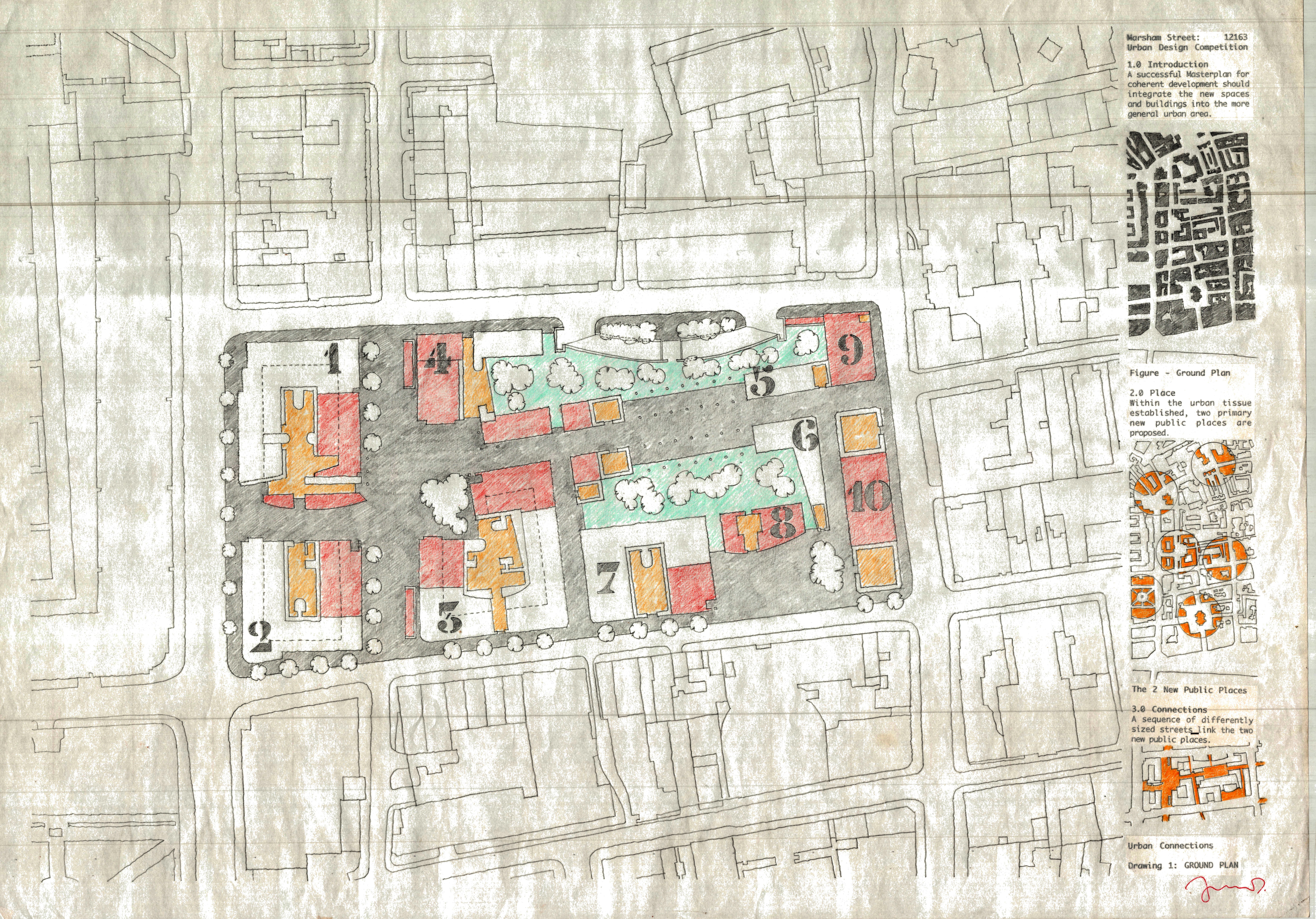 Featured images for Douglas Jarvie Clelland Wikipedia article